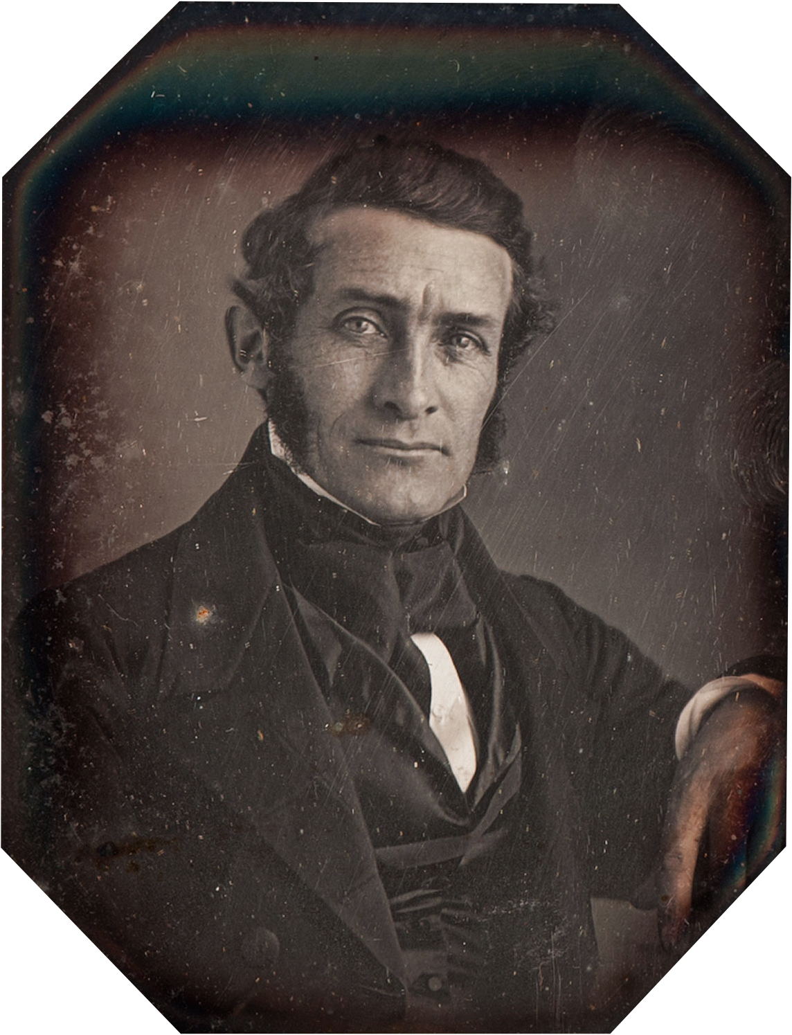 Quarter plate daguerreotype of Henry Northey Hooper